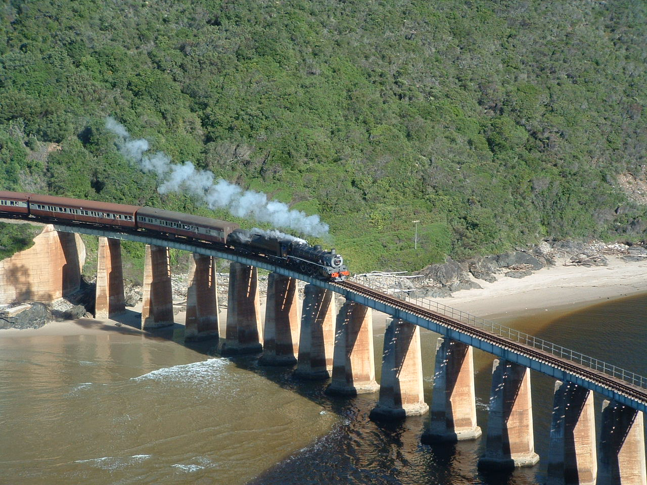 Outeniqua Choo Tjoe at the Kaaimans River bridge 33°59′52″S 22°33′26″E / 33.99778°S 22.55722°E